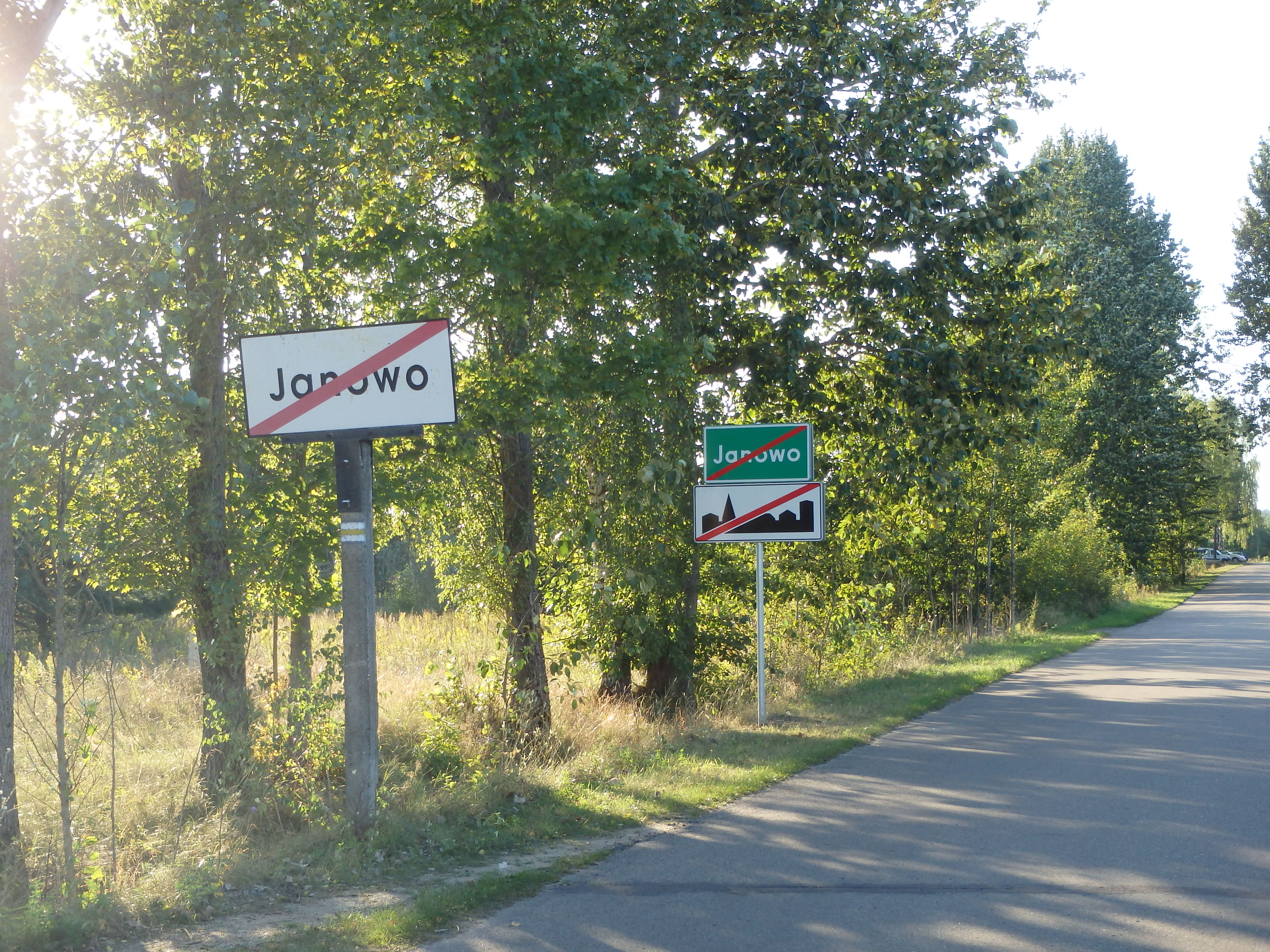 Obsolete (valid til 31 Dec 2005) and current end of built-up area road signs in Janowo, gmina Narewka, Poland. Yellow hiking footpath sign also visible.